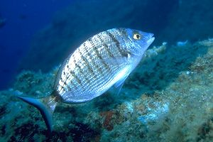 Diplodus puntazzo